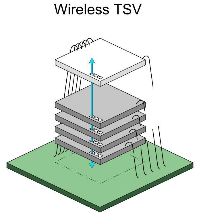 Wireless TSV's model